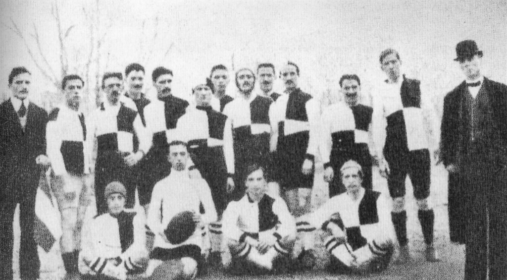 US Milanese, amongst the first Italian rugby union clubs